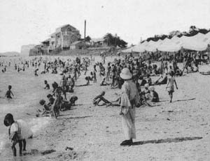 Wolmi beach in Icheon at 1924 published by Empire of Japan